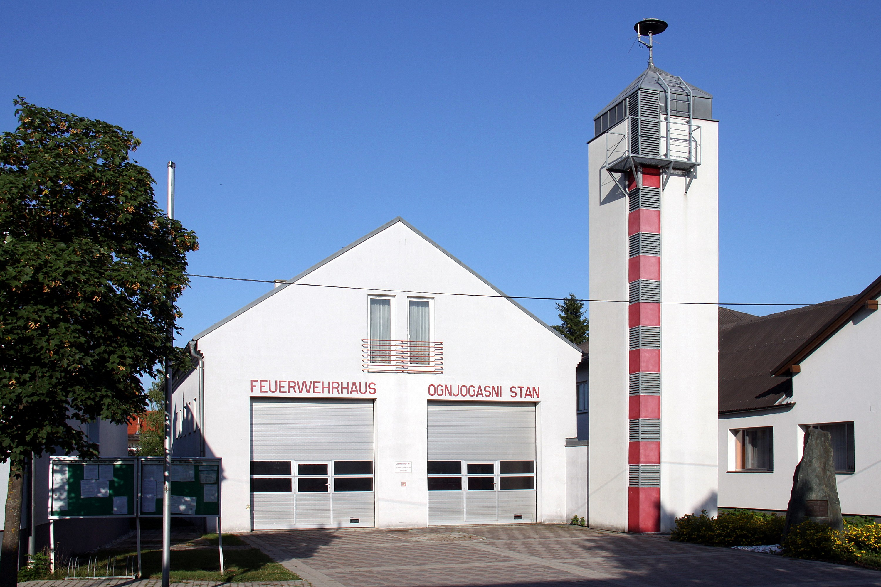 Großwarasdorf - fire station Großwarasdorf